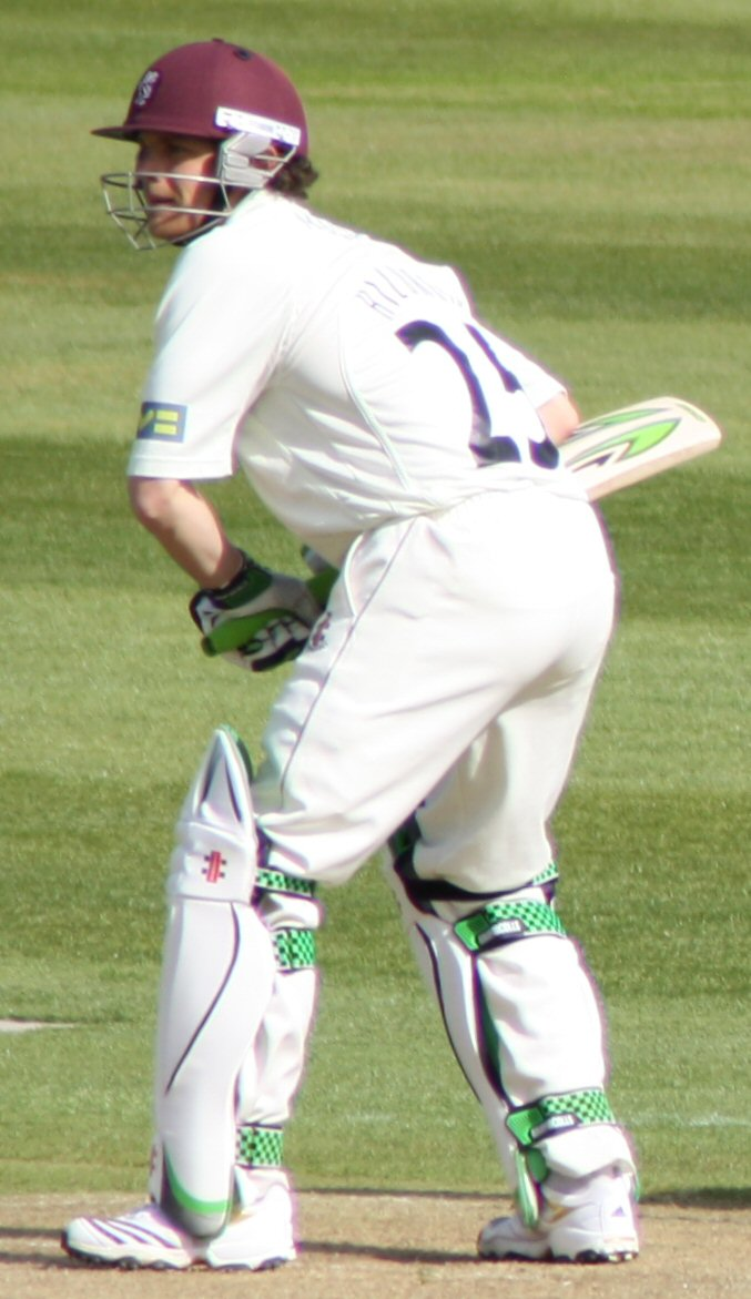 James Hildreth preparing to face a delivery against Essex in a County Championship match at Taunton.